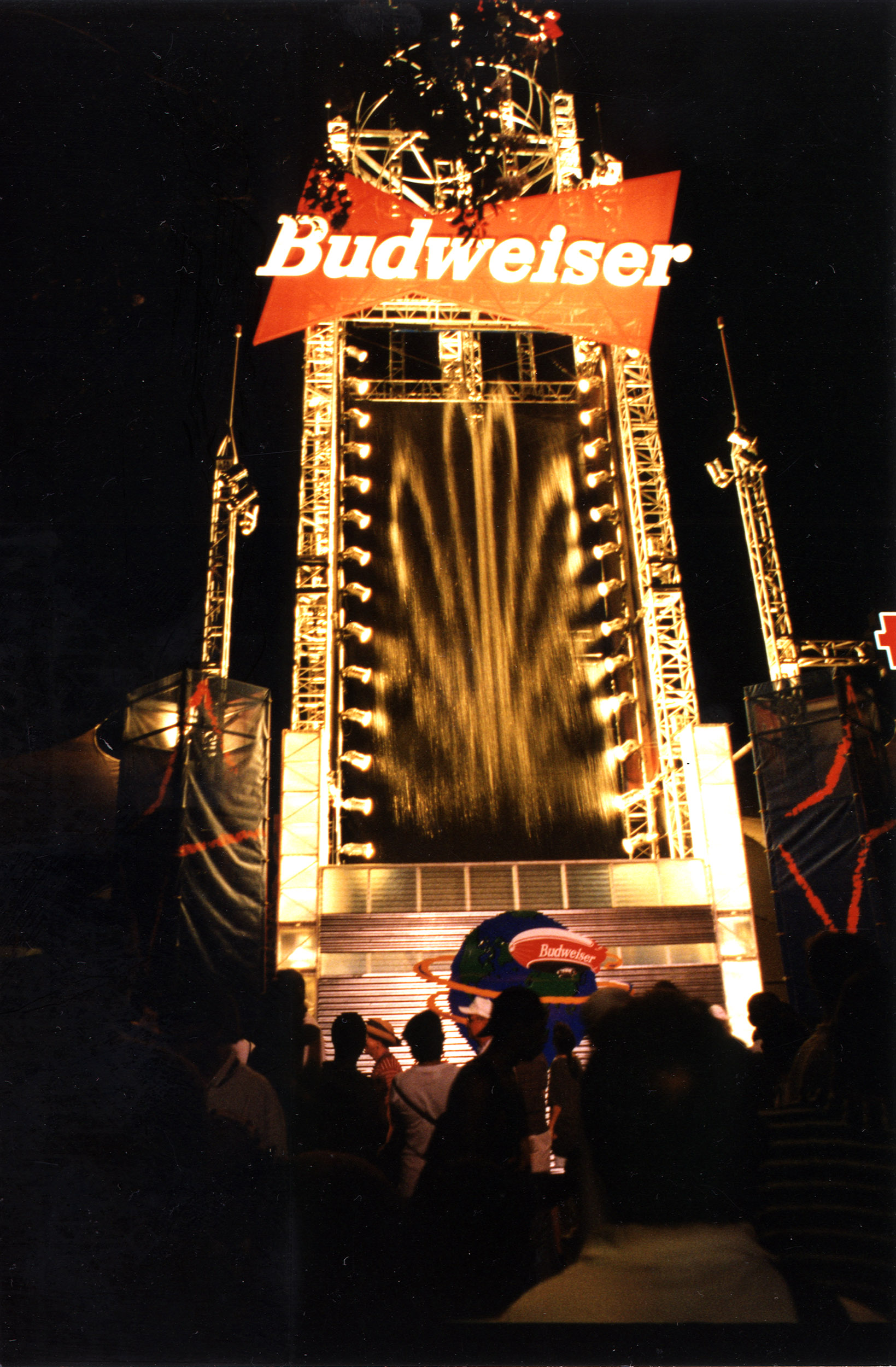 Graphical Waterfall® displaying the NBC logo at the 1996 Summer Olympics